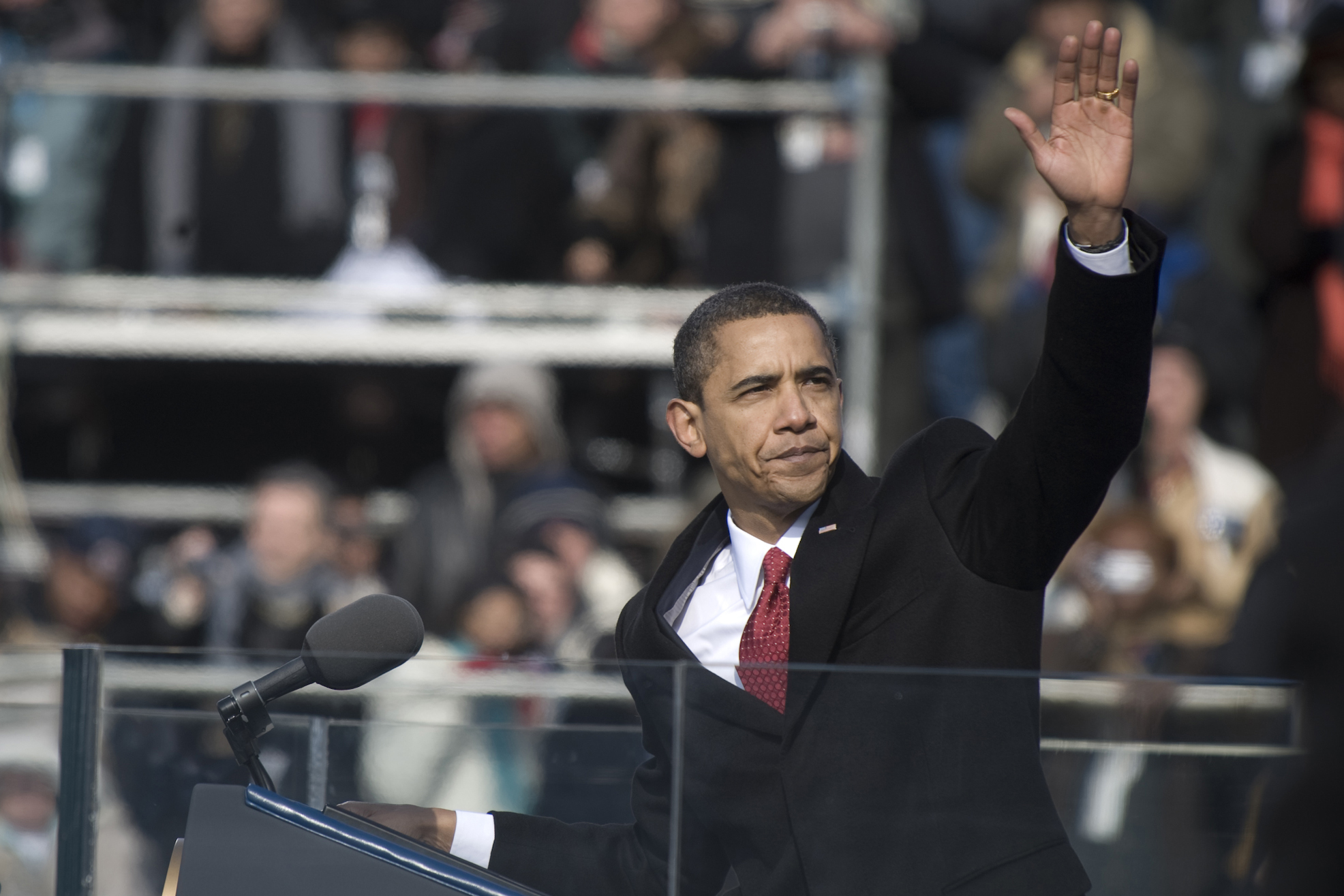 President Barack Obama waves to the crowd at the conclusion of his inaugural address, Washington, D.C., Jan. 20, 2009. The 44th president of the United States assumed his duties as commander in chief and vowed not to waiver in defending America.